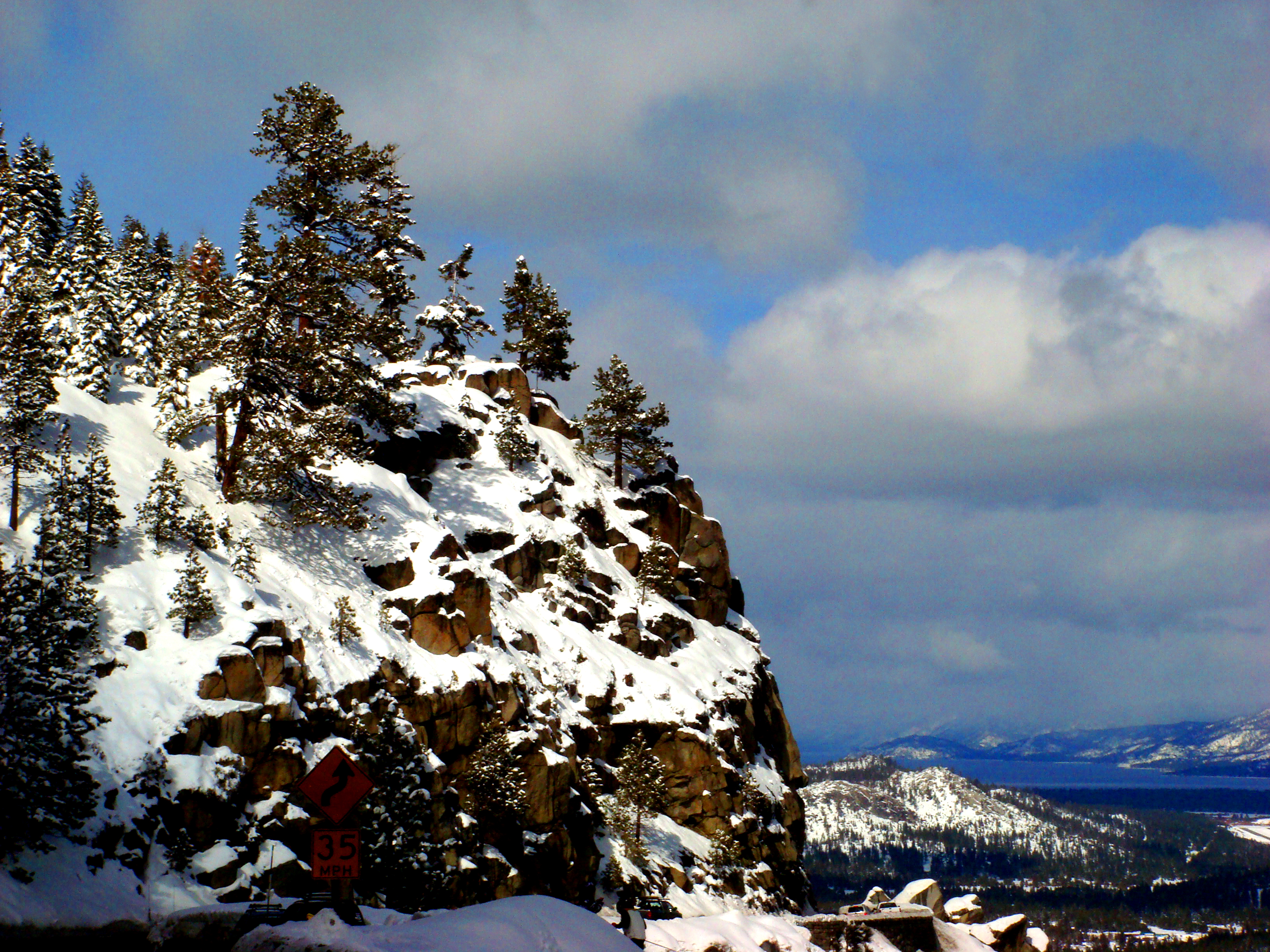 Highway 50 entering Lake Tahoe